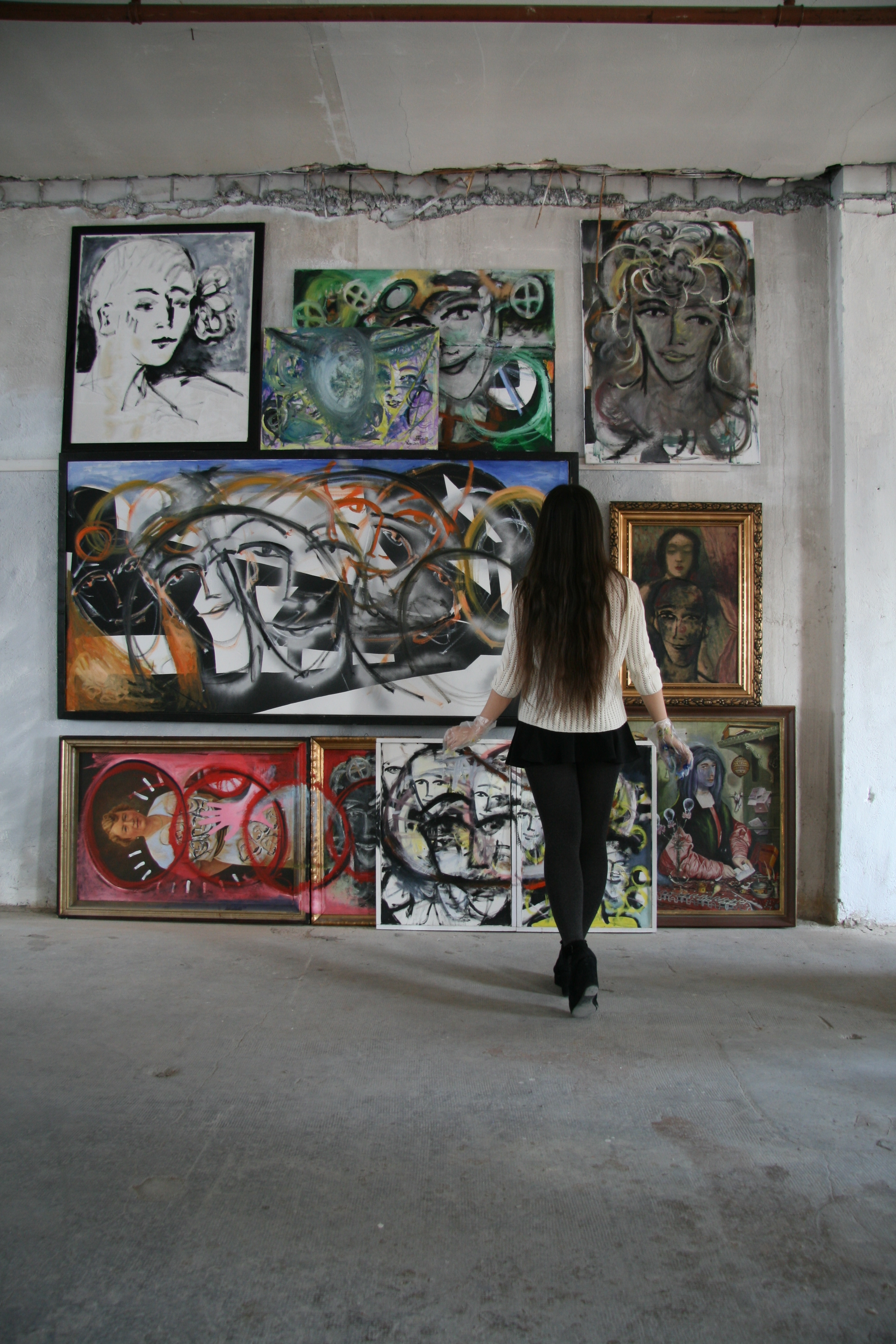 Fine Arts, Art Wall